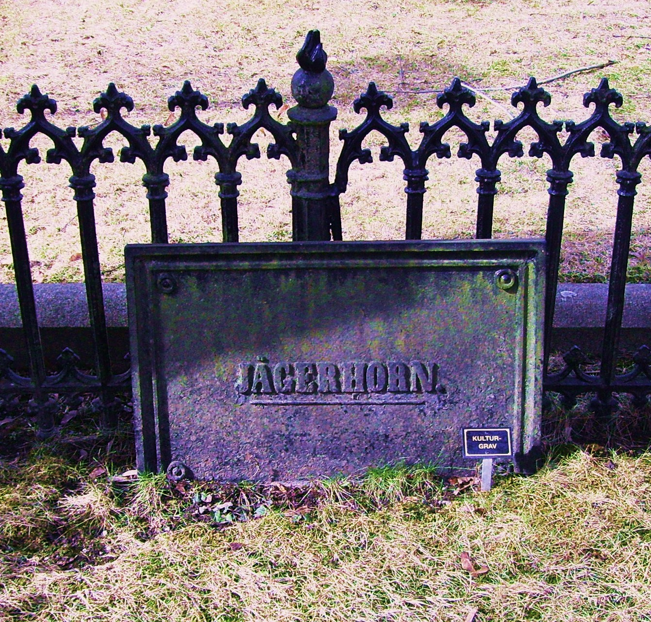 Picture of the writer Georg (Göran) Jägerhorn af Spurilas (1747-1826) grave at Huddinge kyrkogård